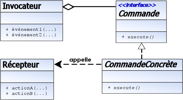 UML Class Diagram of the Command Design Pattern